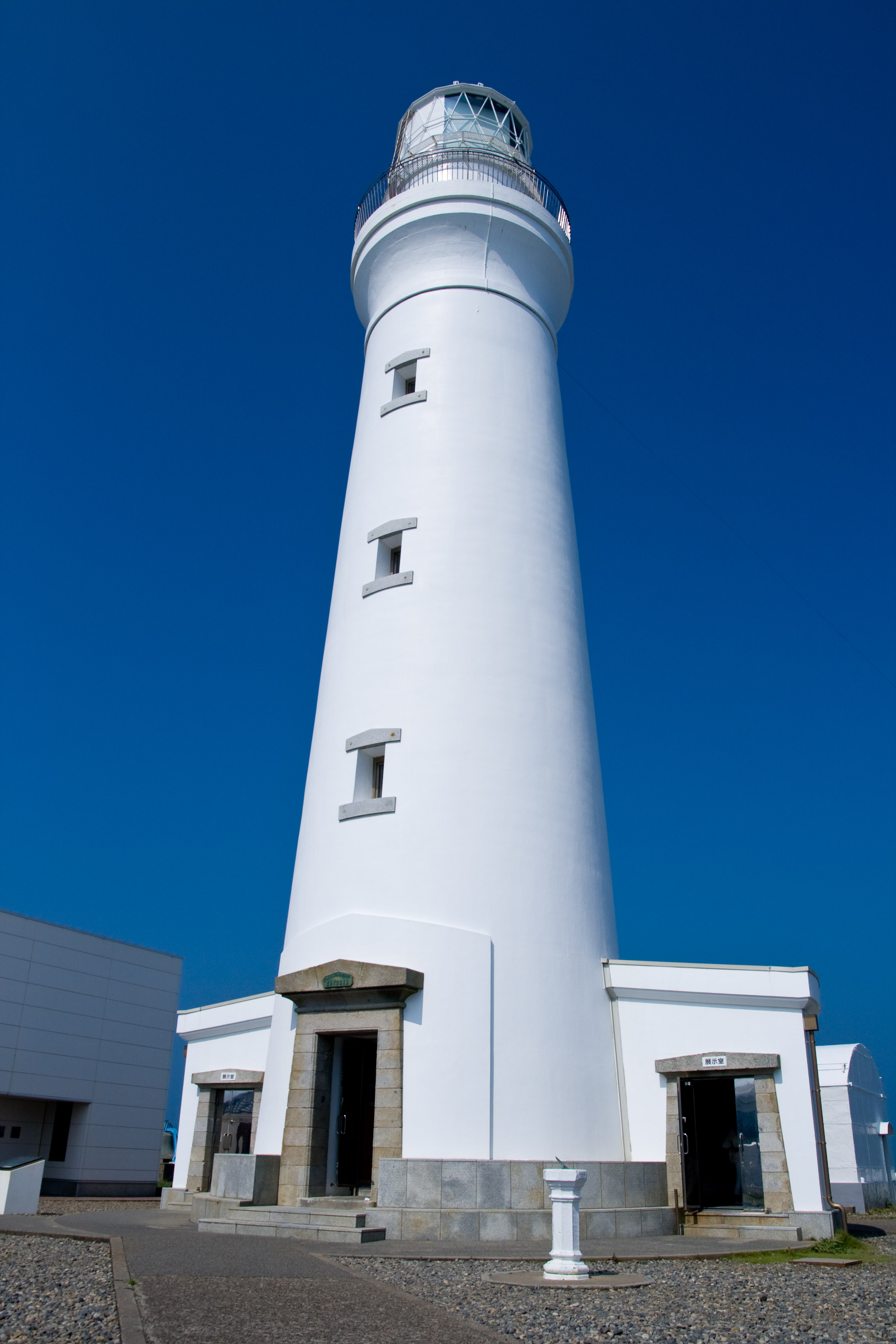 Cape Inubō, Choshi City, Chiba Prefecture, Japan.